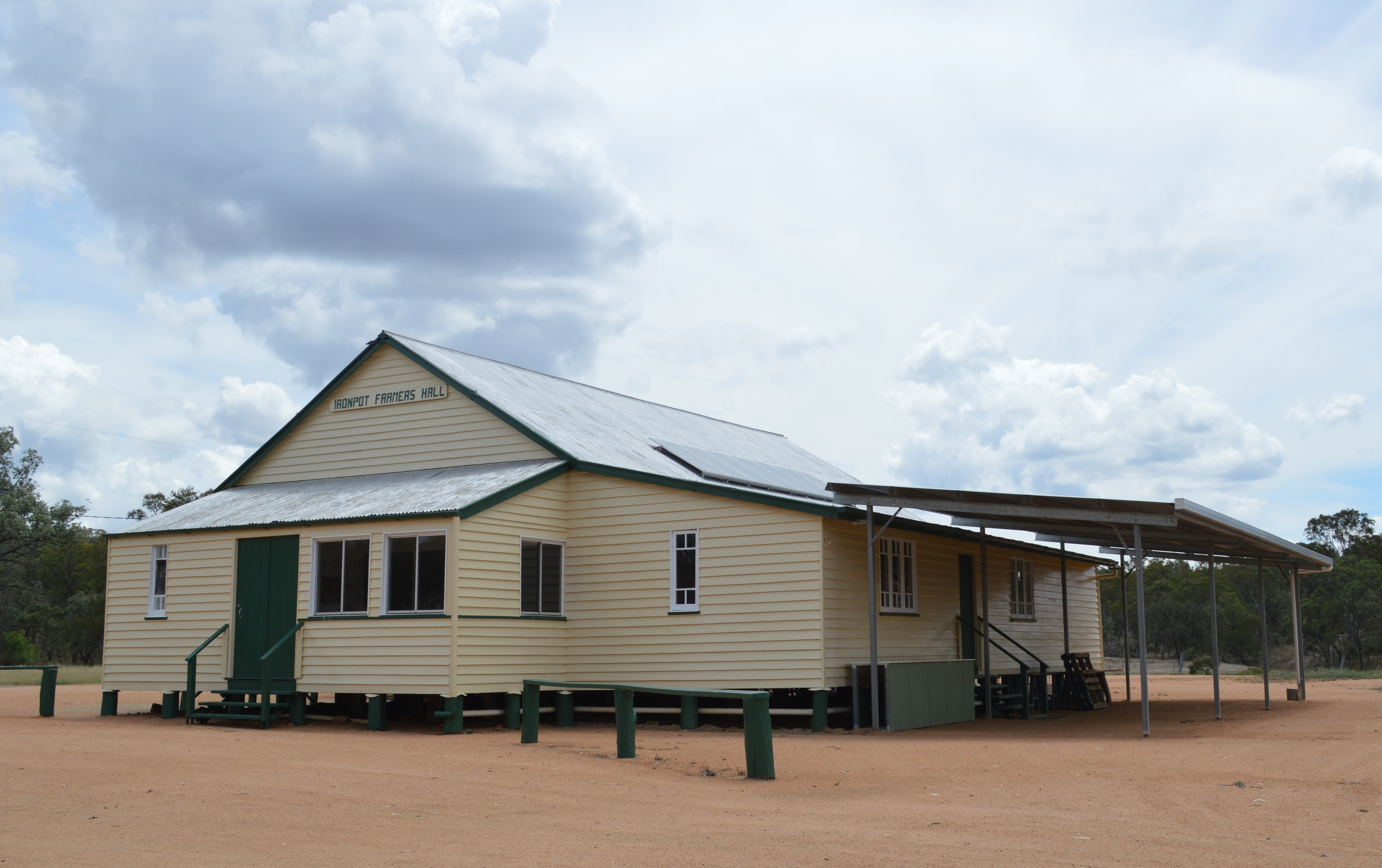 Ironpot Farmers Hall at Template:Ironpot, Queensland